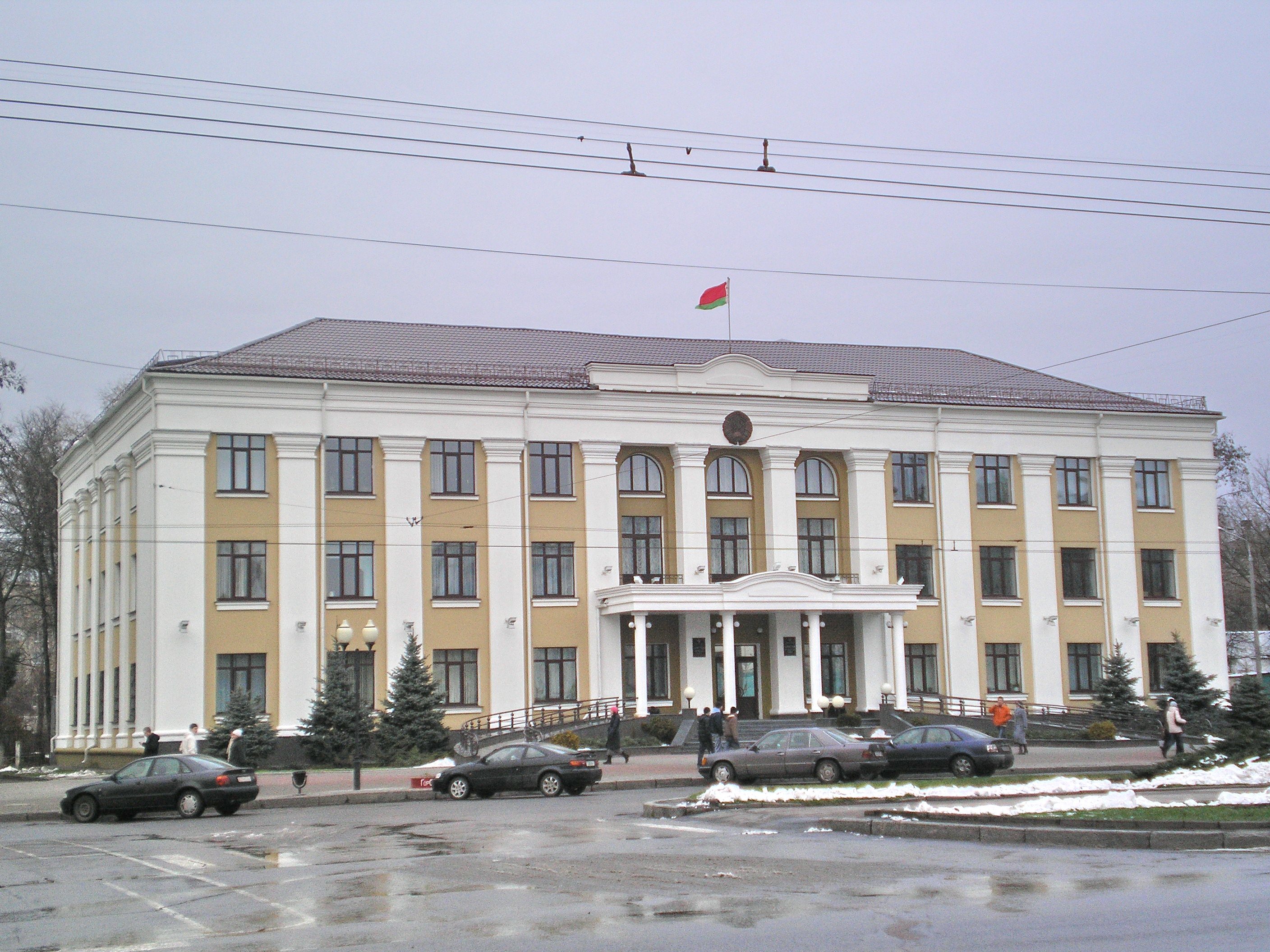 Adminictrative building in Gomel